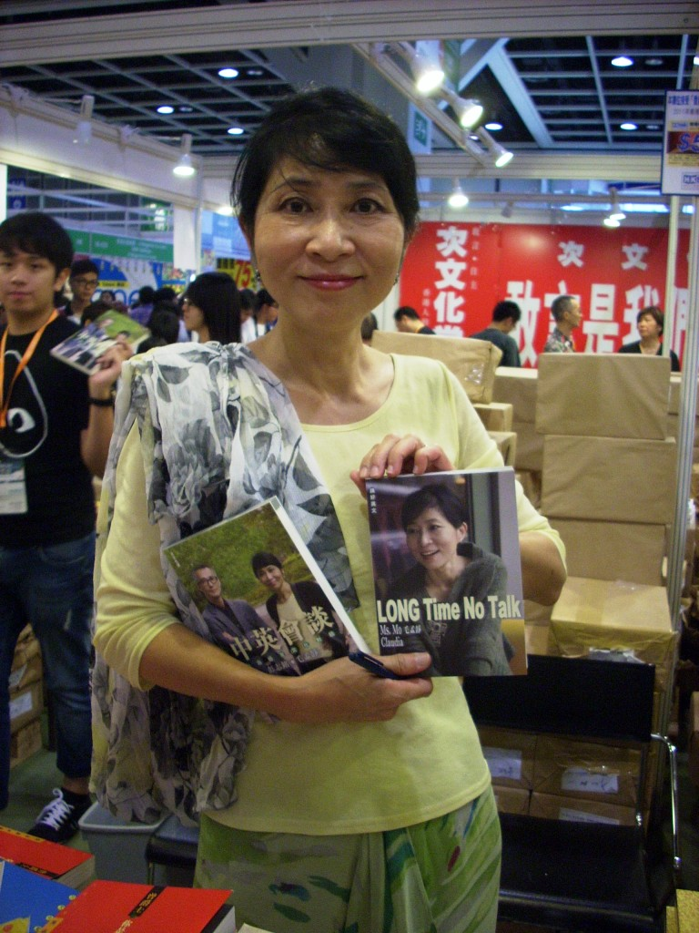 Claudia Mo in 2011 Hong Kong Book Fair